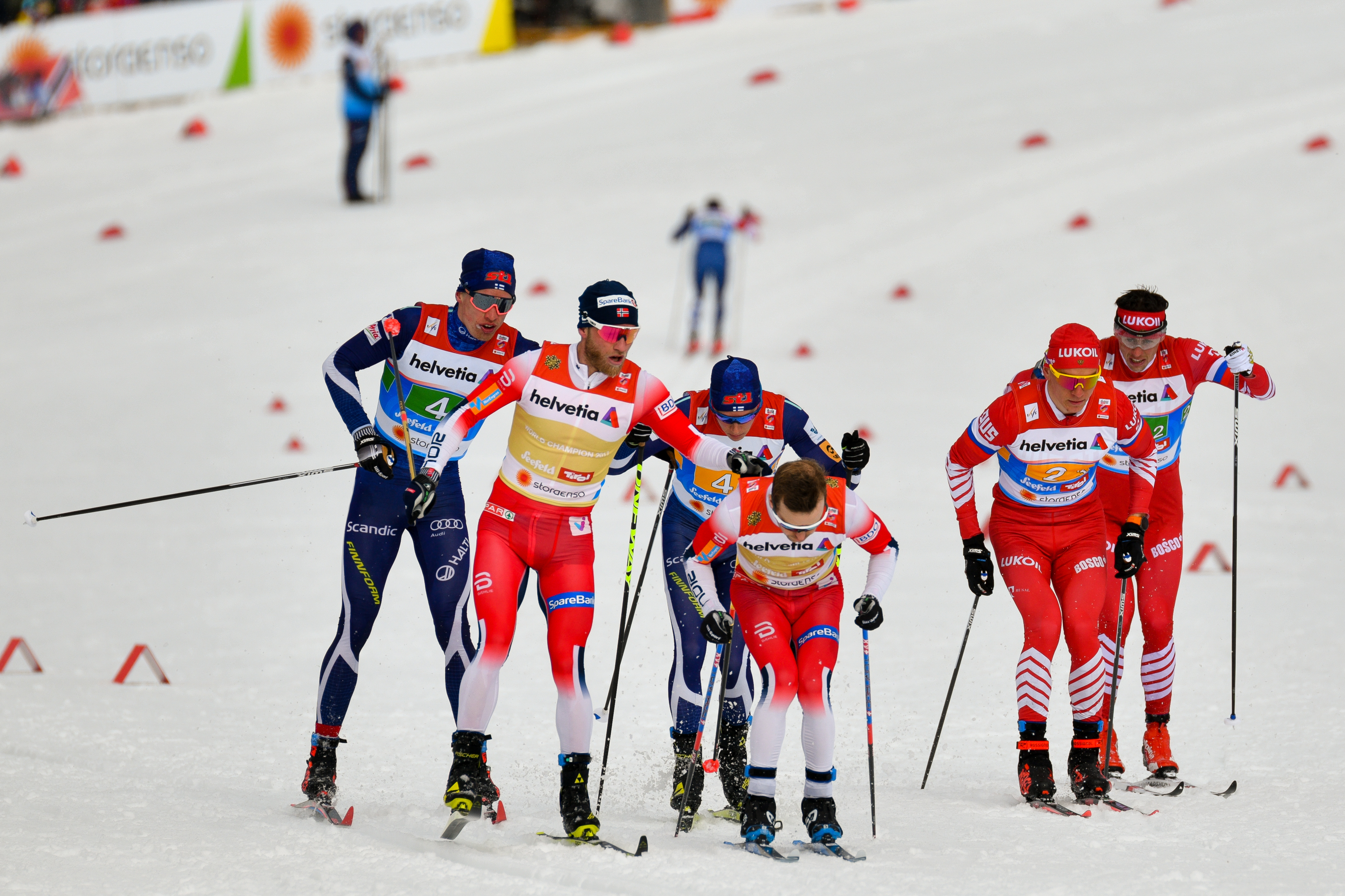 FIS Nordic World Ski Championships Seefeld 2019 - Men 4x10km Relay Classic/Free. Picture shows Iivo Niskanen (FIN), Martin Johnsrud Sundby (NOR), Matti Heikkinen (FIN), Sjur Roethe (NOR), Alexander Bolshunov (RUS), Alexander Bessmertnykh (RUS).